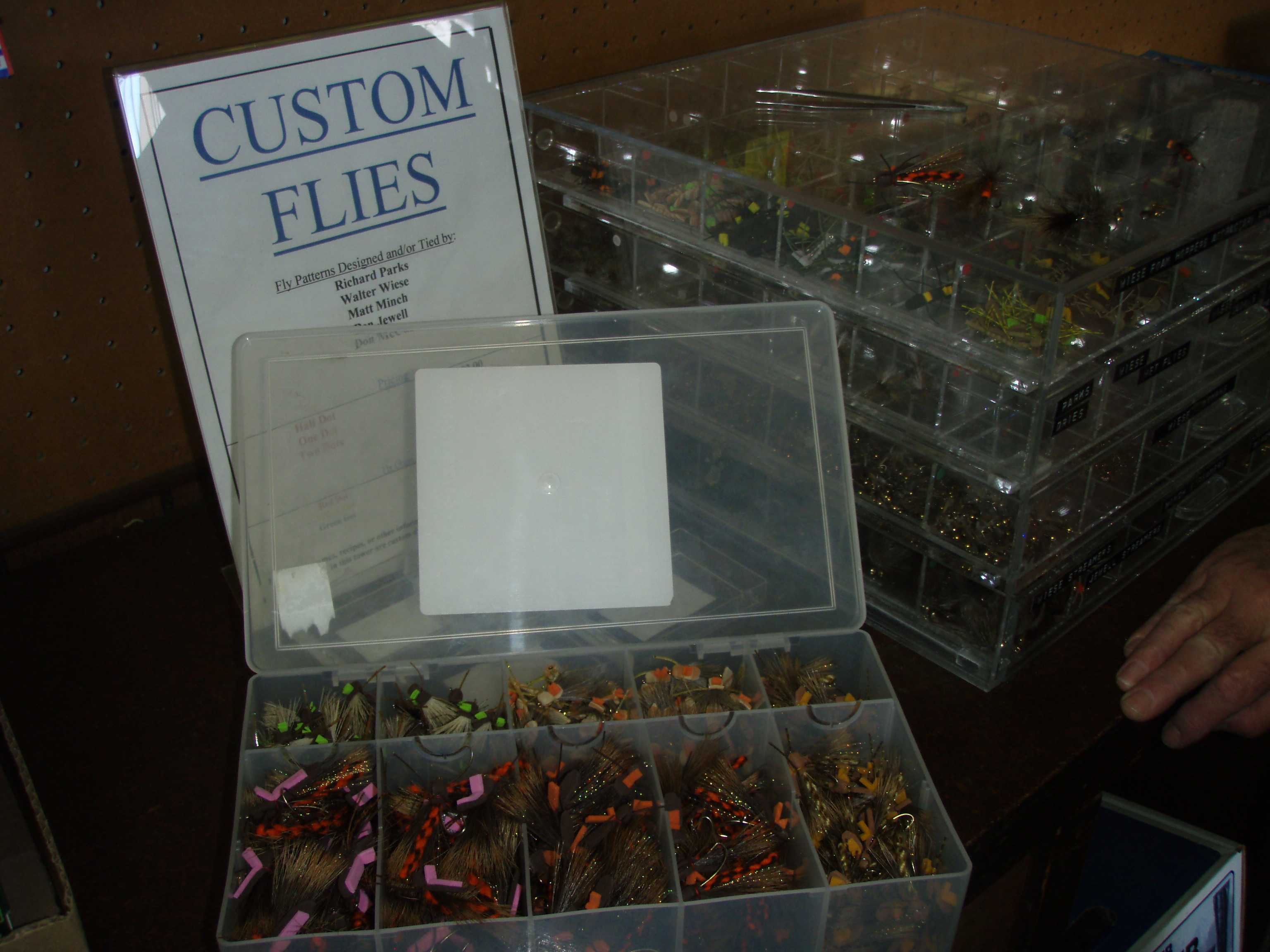 Tray of Custom Trout Flies by Parks' Fly Shop, Gardiner, Montana